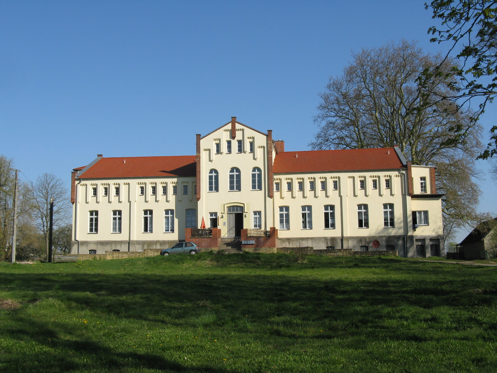 Manor house in Benthen, Mecklenburg-Vorpommern, Germany